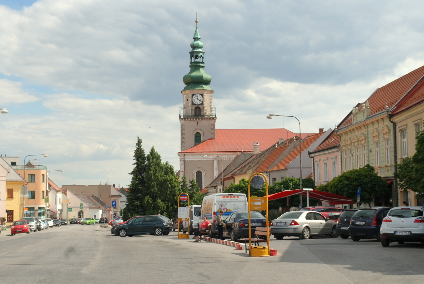 Enhanced Square, Sturova street, Modra